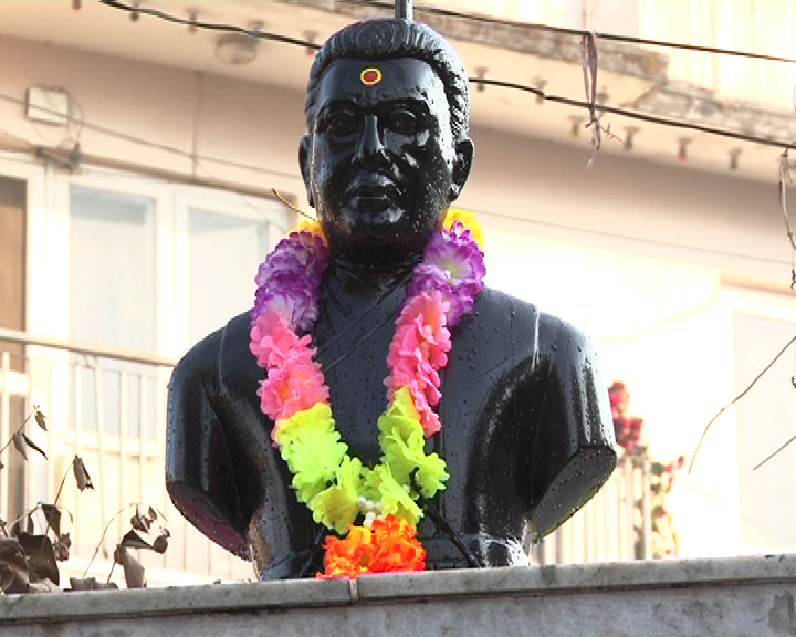 Nepali martyre